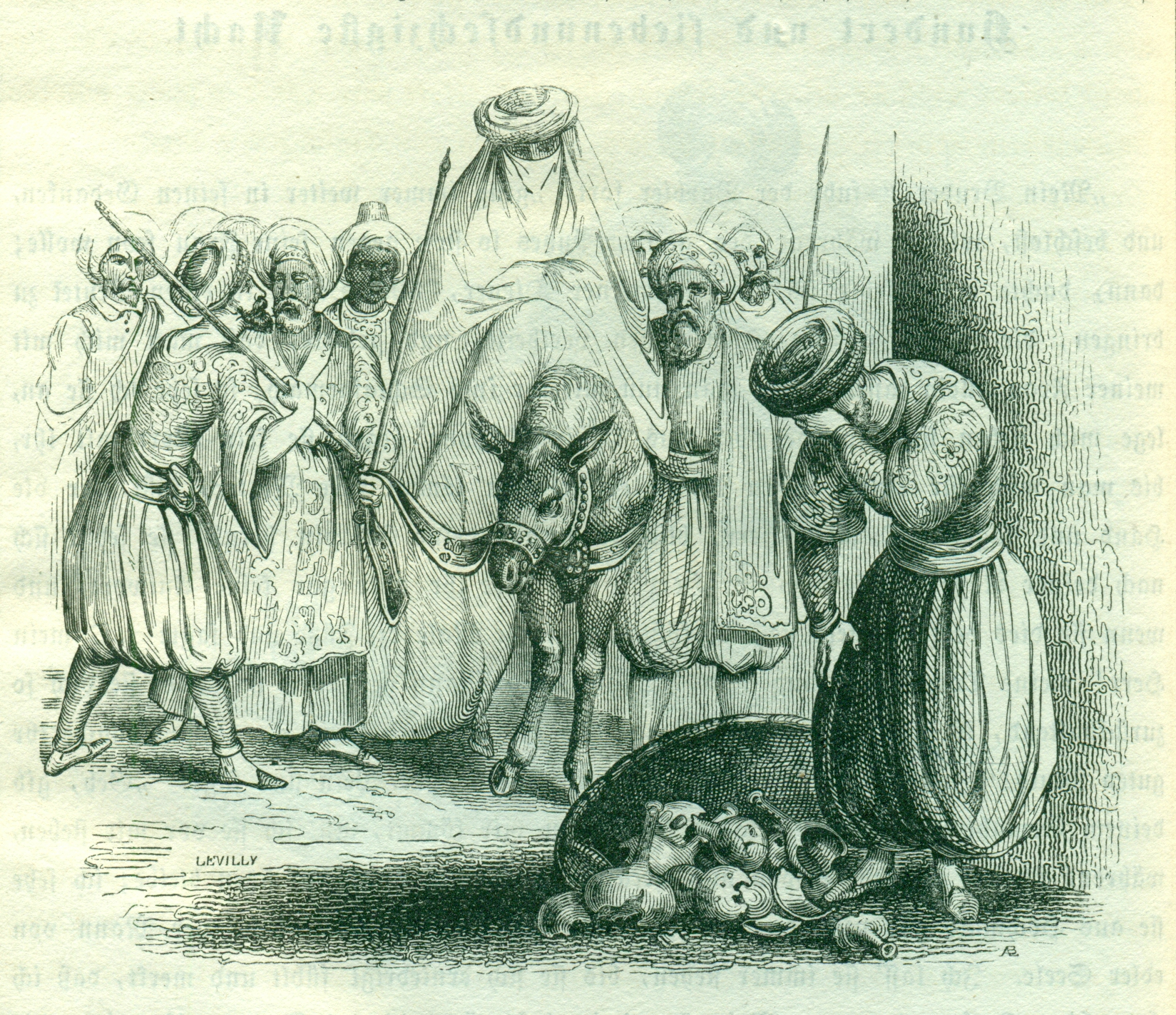 Woodcut